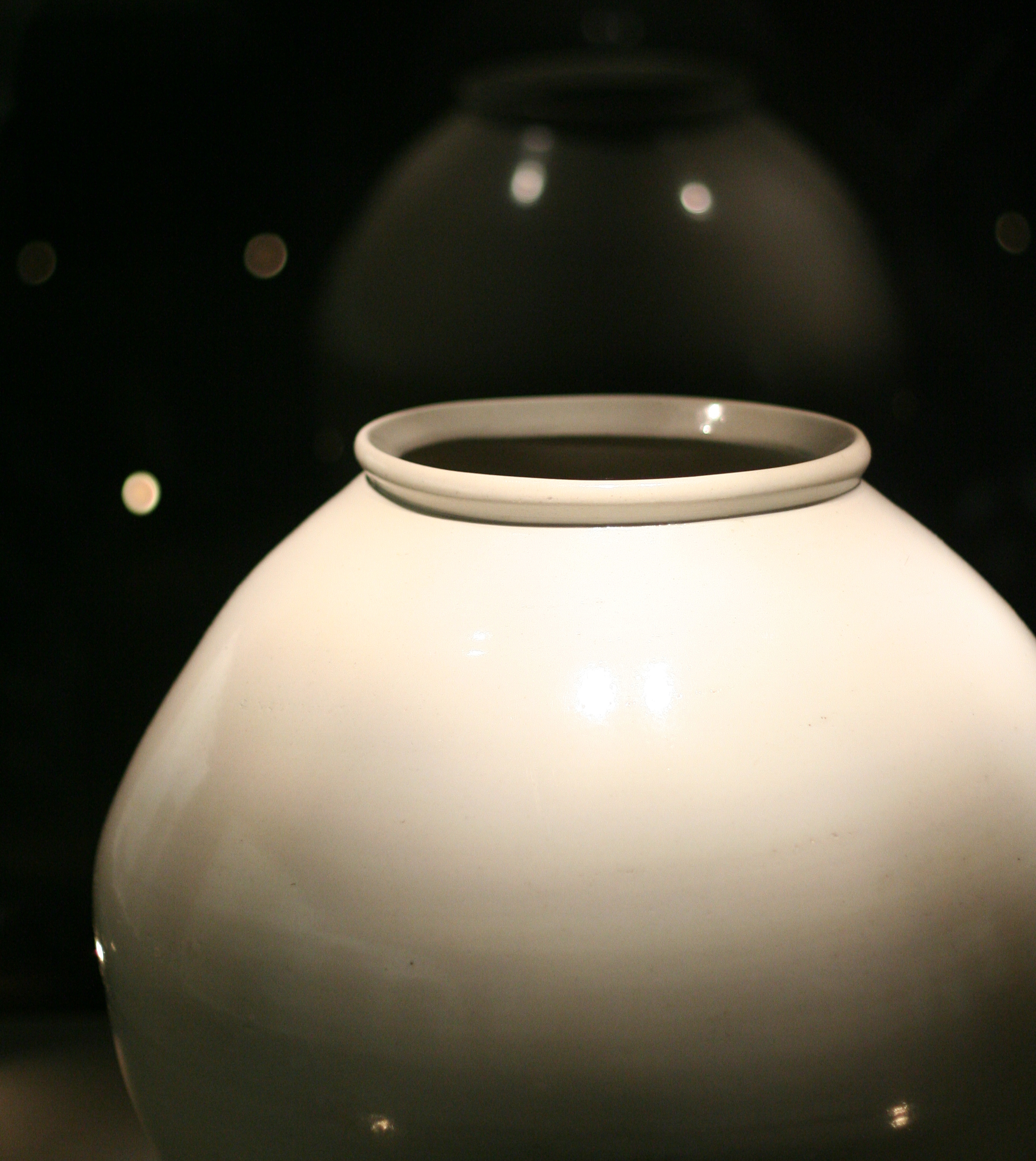 Moon jar, a Joseon white porcelain made during the mid Joseon dynasty of Korea. It is exhibited at National Museum of Korea, Seoul.